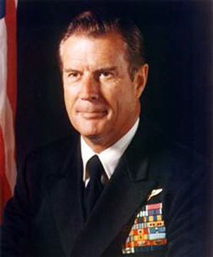 VADM Vincent P. De Poix